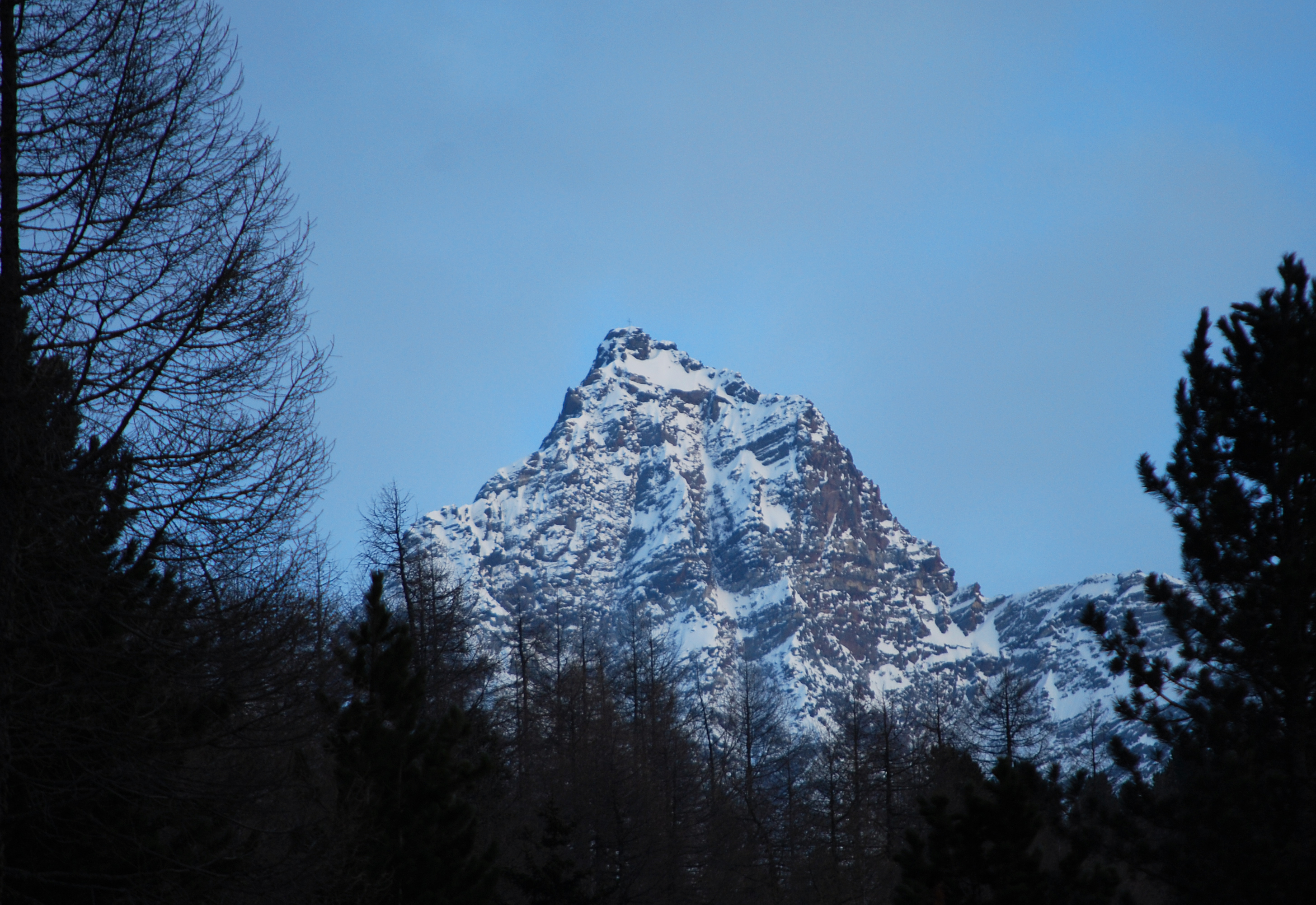 Strahlkogel from North (seen from Horlachtal through Larstigtal)